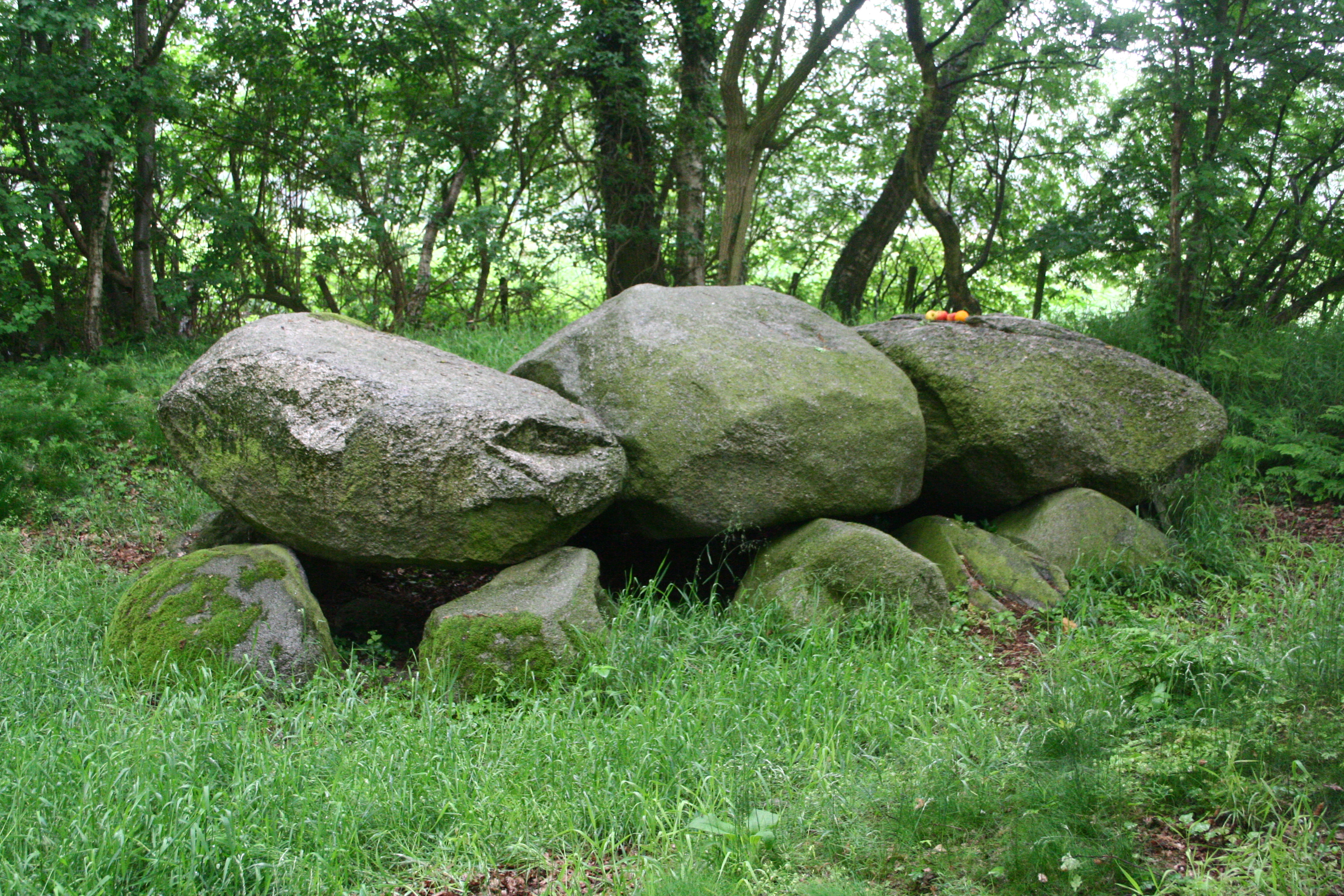 Megalithic tomb Hammah 1